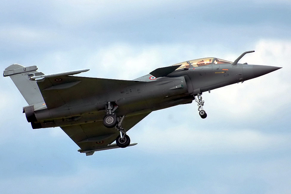 Dassault Rafale B at Paris Air Show 2007